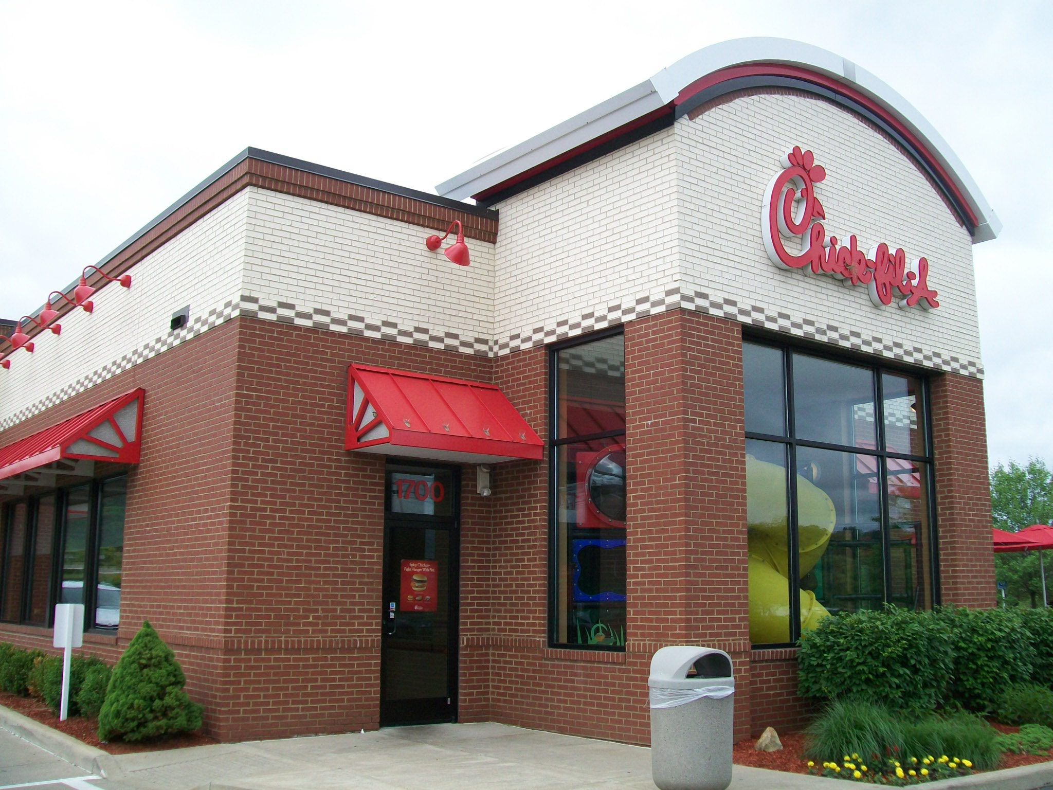 Chick Fil A - Cranberry TWP, PA